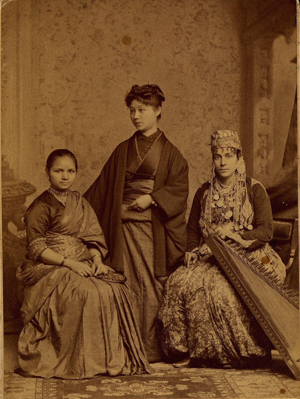 Photograph of Anandibai Joshee (left) from India, Kei Okami (center) from Japan, and Sabat M. Islambouli (right) from Ottoman Syria, students from the Woman's Medical College of Pennsylvania. All three were the first woman from their respective countries to obtain a degree in Western medicine from a Western university.